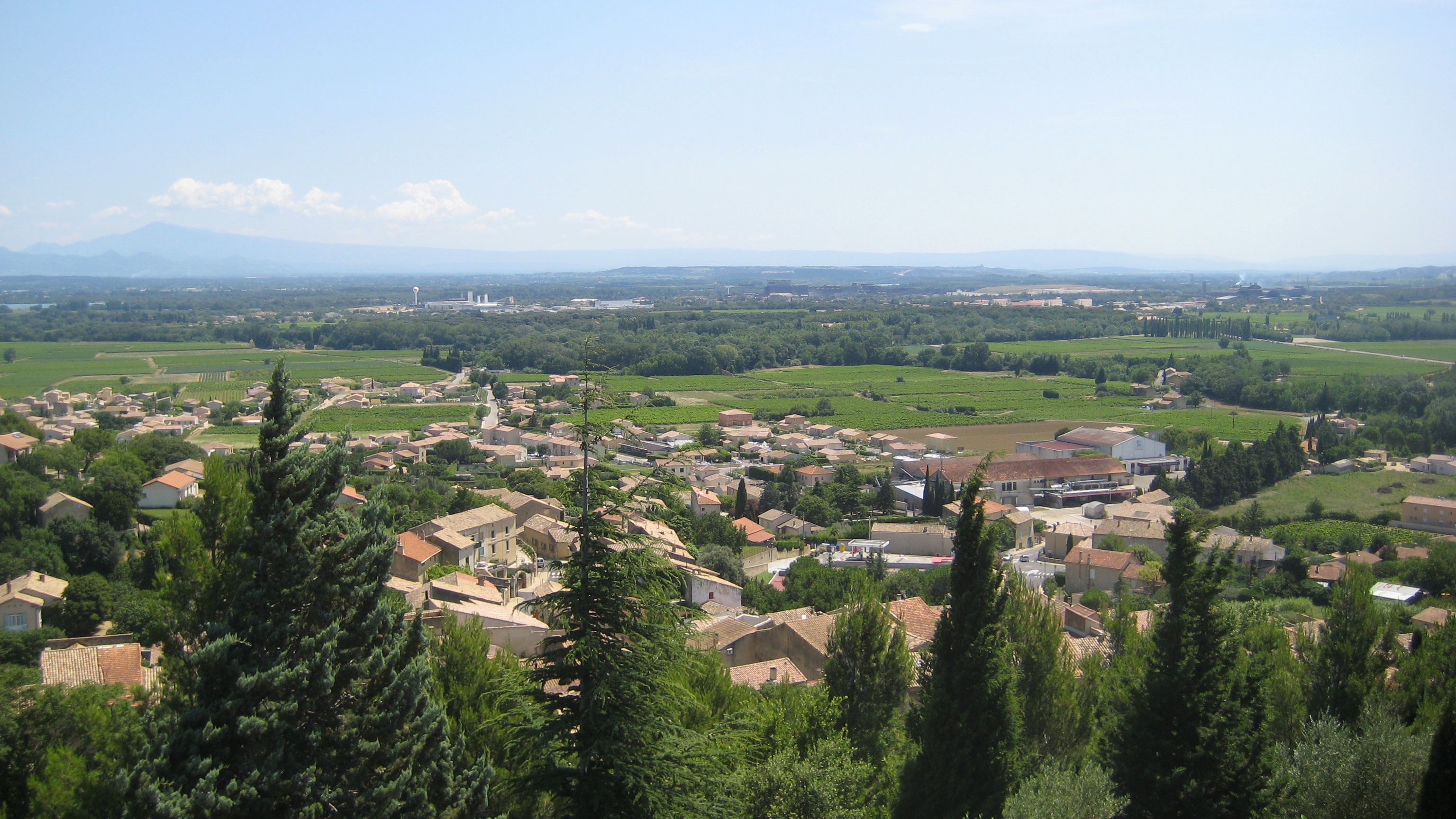 Vineyards in the French wine region of the Rhone valley.